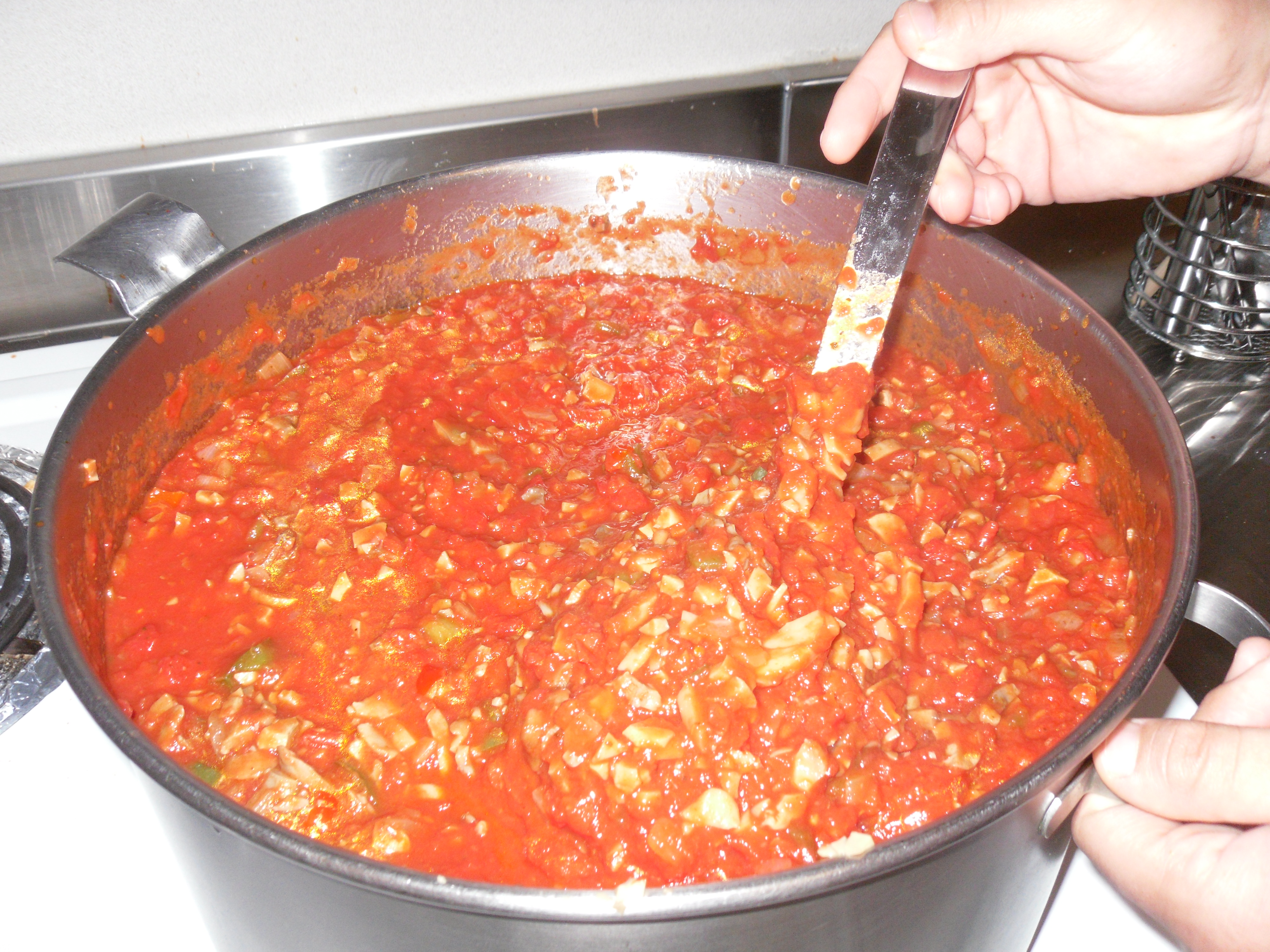 A pot of canned pasta sauce stirring on the stove.